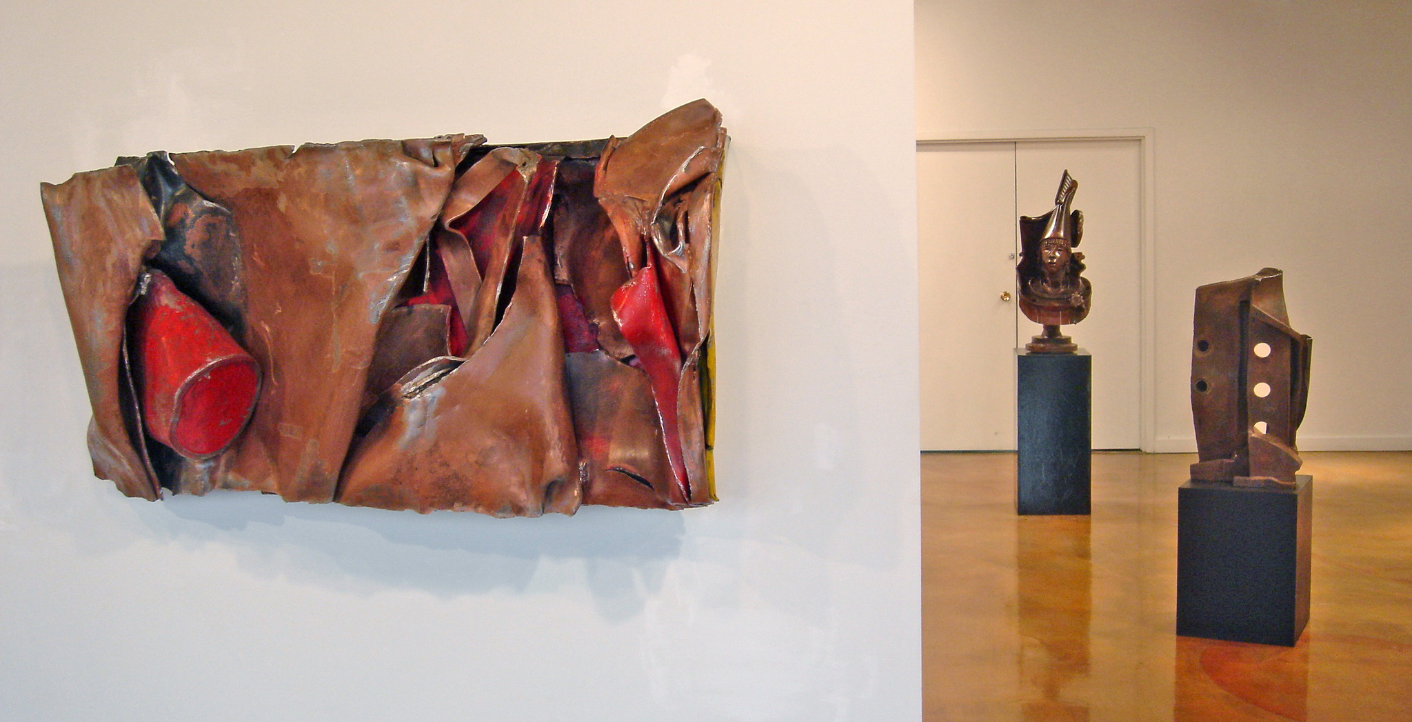 Installation view of the North Edmonton Sculpture Workshop's "New Directions" exhibition, featuring welded sculpture by Andrew French, Ryan McCourt, and Robert Willms, at the Stollery Gallery in Edmonton.